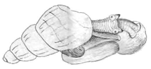 Drawing of Blanfordia bensoni.